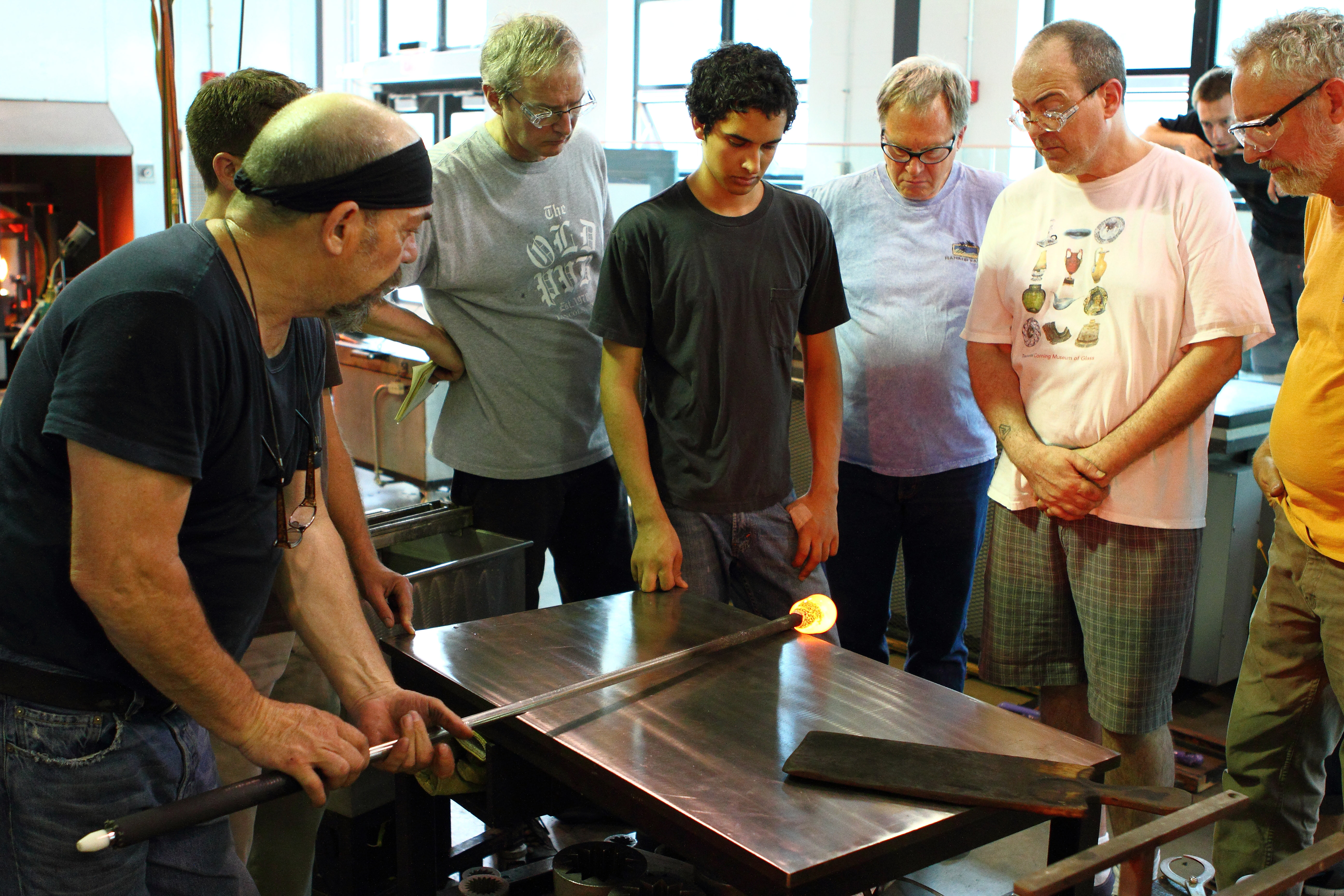 Master glass artist Davide Salvadore teaches technique during his class at the museum's studio.